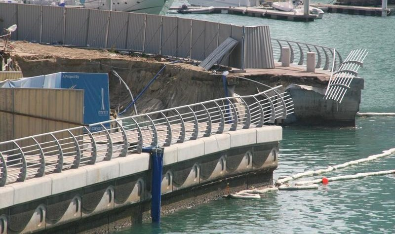 This is a photo showing the Infinity Tower's plot in Dubai Marina in Dubai, United Arab Emirates on 8 February 2007. The plot was flooded the day before due to the collapse of the wall seperating the plot and the water in Dubai Marina.